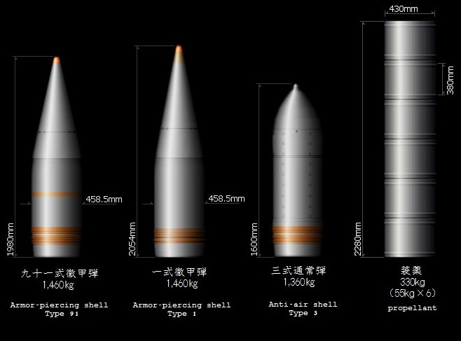 Shells of IJN Battleship Yamato 46cm gun. From left; armor-piercing shell Type 91, armor-piercing shell Type 1, anti-air shell Type 3, propellant.